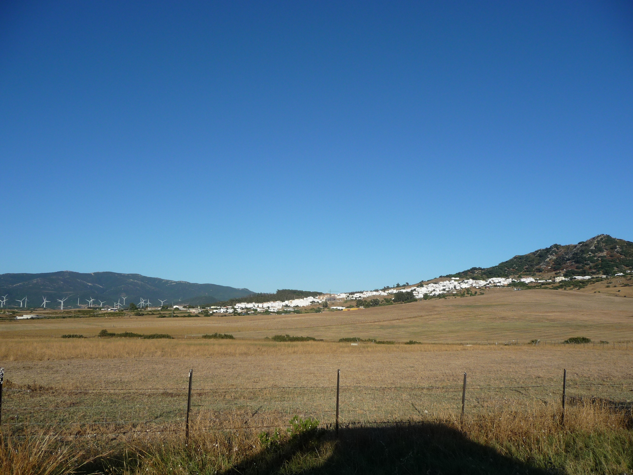 Facinas from N-340 road